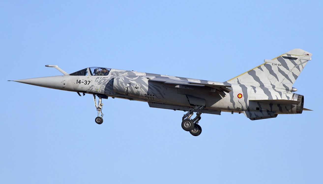 Spanish Air Force Dassault Mirage F1M at Albacete (- Los Llanos) (LEAB)